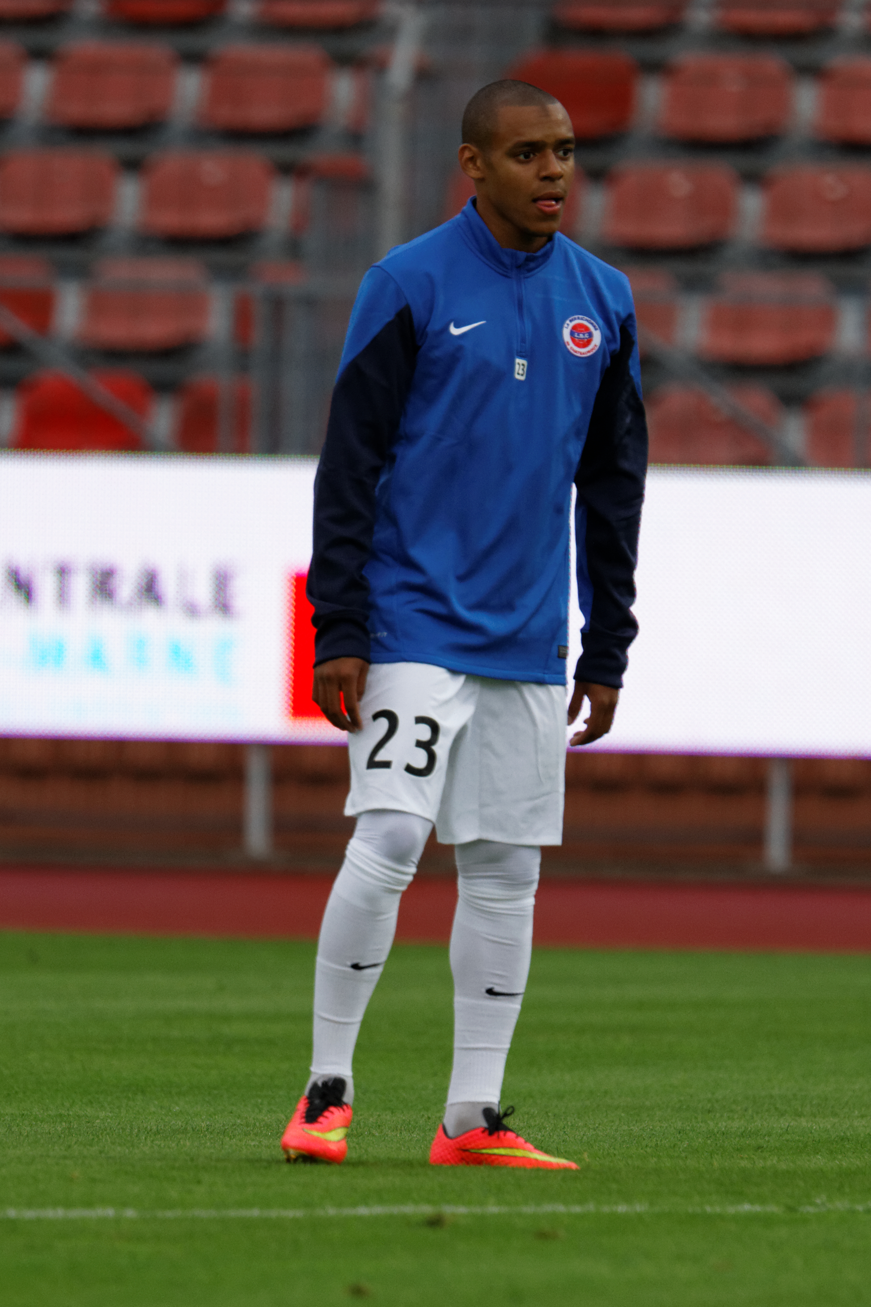 Créteil vs Châteauroux, 8th August 2014.